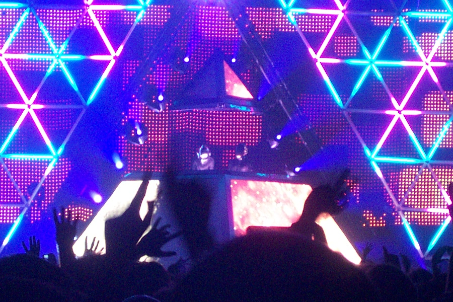 Daft Punk performing at Bercy in Paris on 14 June 2007. Performance was recorded for their live album Alive 2007.